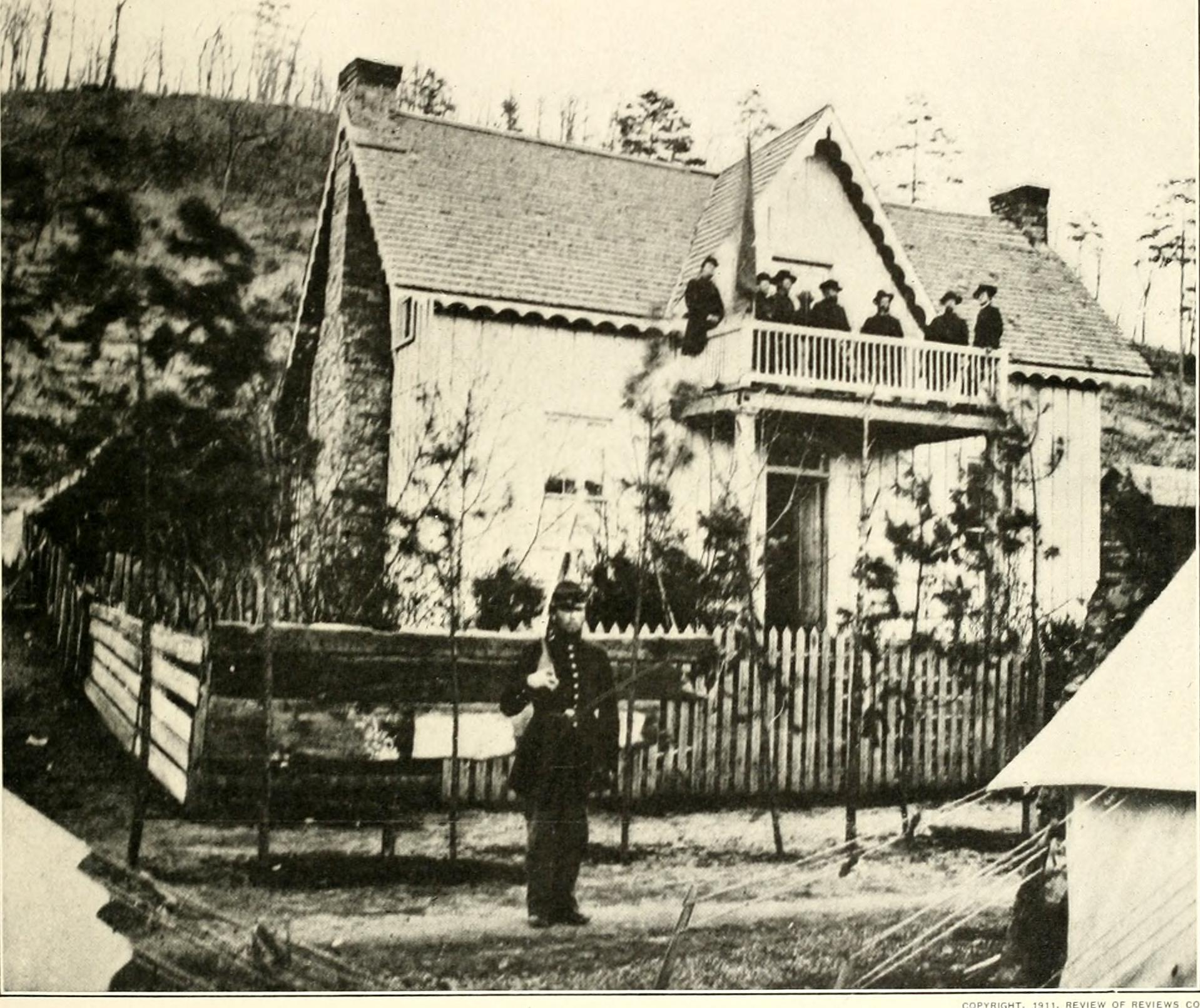 Title: The Civil War through the camera : hundreds of vivid photographs actually taken in Civil War times, together with Elson's new history Year: 1912 (1910s) Authors: Elson, Henry William, 1857- Brady, Mathew B., ca. 1823-1896 Civil War Semi-centennial Society Patriot Pub. Co., Springfield, Mass Subjects: Publisher: Springfield, Mass. : Patriot Pub. Co. Text Appearing Before Image: ' Text Appearing After Image: IN THE FOREFRONT—GENERAL RICHARD W. JOHNSON AT GRAYSVILLE On the balcony of this littlecottage at Graysville, Georgia, stands (leneral Richard \V. Johnson, ready to advance with his cavalry divisionin the vanguard of the direct movement upon the Confederates strongly posted at Dalton. Shermans cavalry forces under Stone-man and Garrard were not yet fully equipped and joined the army after the campaign had opened. General Richard \V. Johnsonsdivision of Thomas command, with General Palmers division, was given the honor of heading the line of march when the Federalsgot in motion on May 5th. The same troops (Palmers division) had made the same march in February, sent by Grant to engageJohnston at Dalton during Shermans Meridian campaign. Johnson was a West Pointer: he had gained his cavalry training in theMexican War, and had fought the Indians on the Texas border. He distinguished himself at Corinth, and rapidly rose to the com-mand of a division in Buells army. Fresh from a Confedera